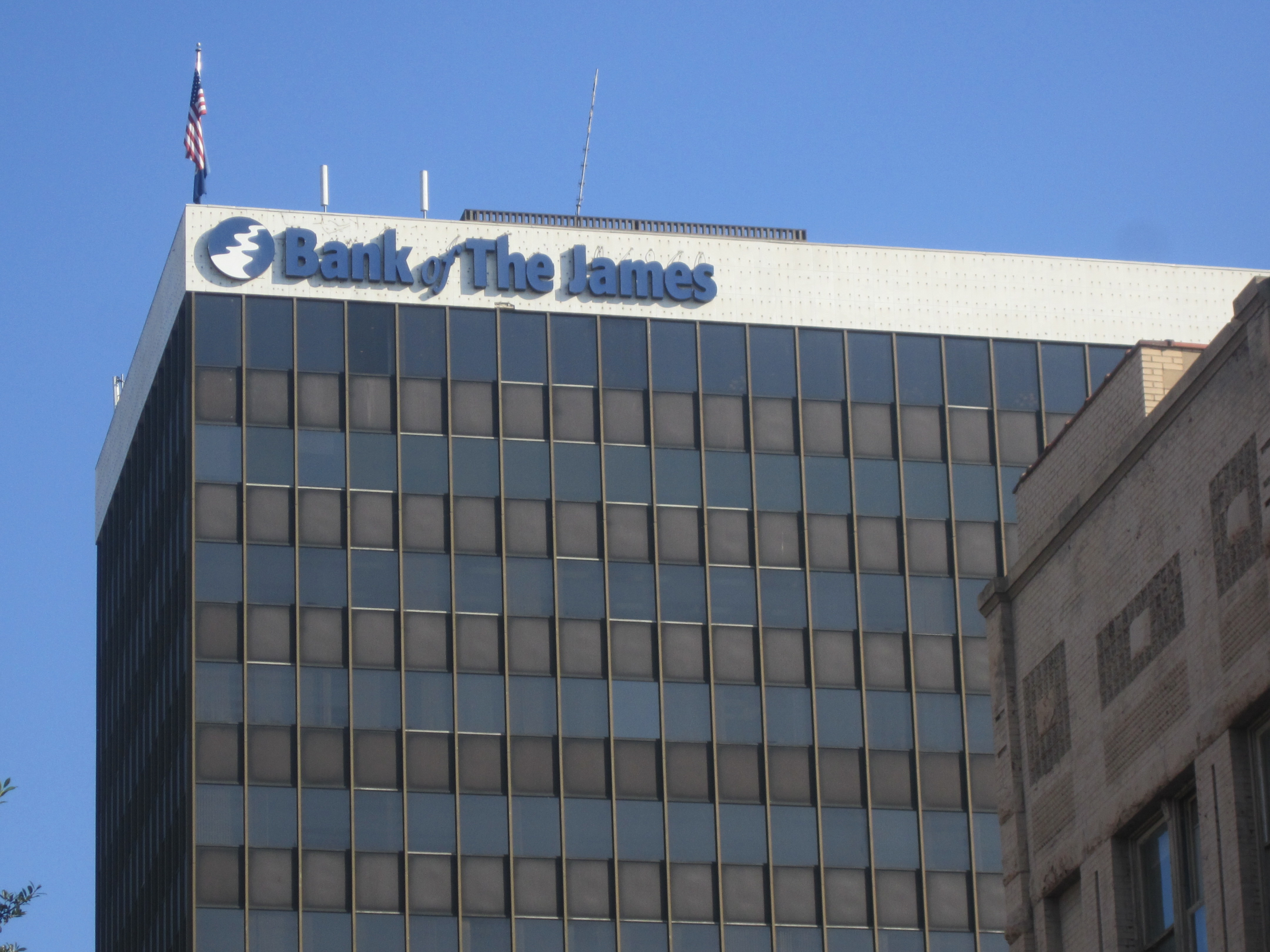 I took photo with Canon camera in Lynchburg, VA.